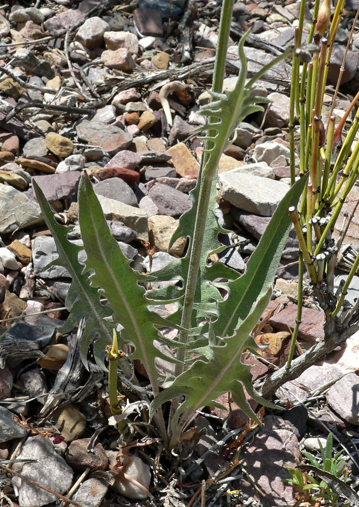 Crepis intermedia near road 592(?) about 2 km northeast of Mount Stirling, Spring Mountains, southern Nevada (elev. about 1900 m); although these individuals are less tomentose than usual for C. intermedia, the species is known to be highly variable, and the outer phyllaries are smaller than would be expected for C. occidentalis